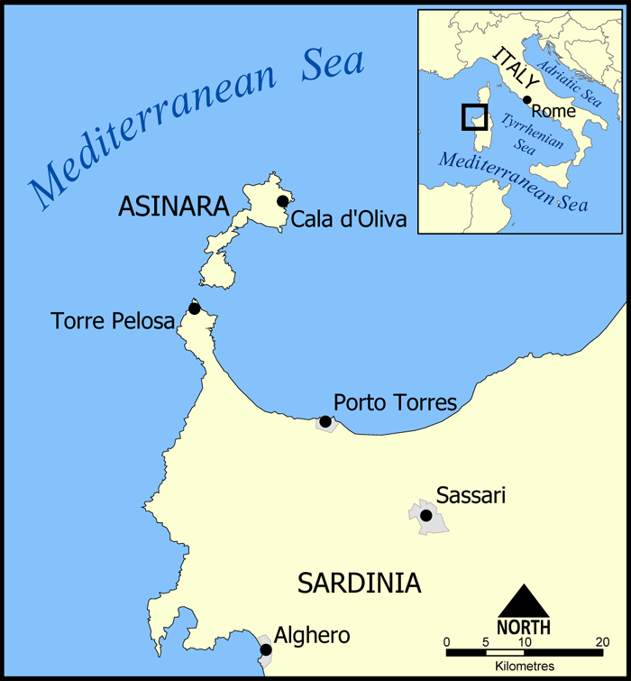 A map of Asinara island off the northwest coast of Sardinia, Italy. Created by NormanEinstein, July 15, 2005.